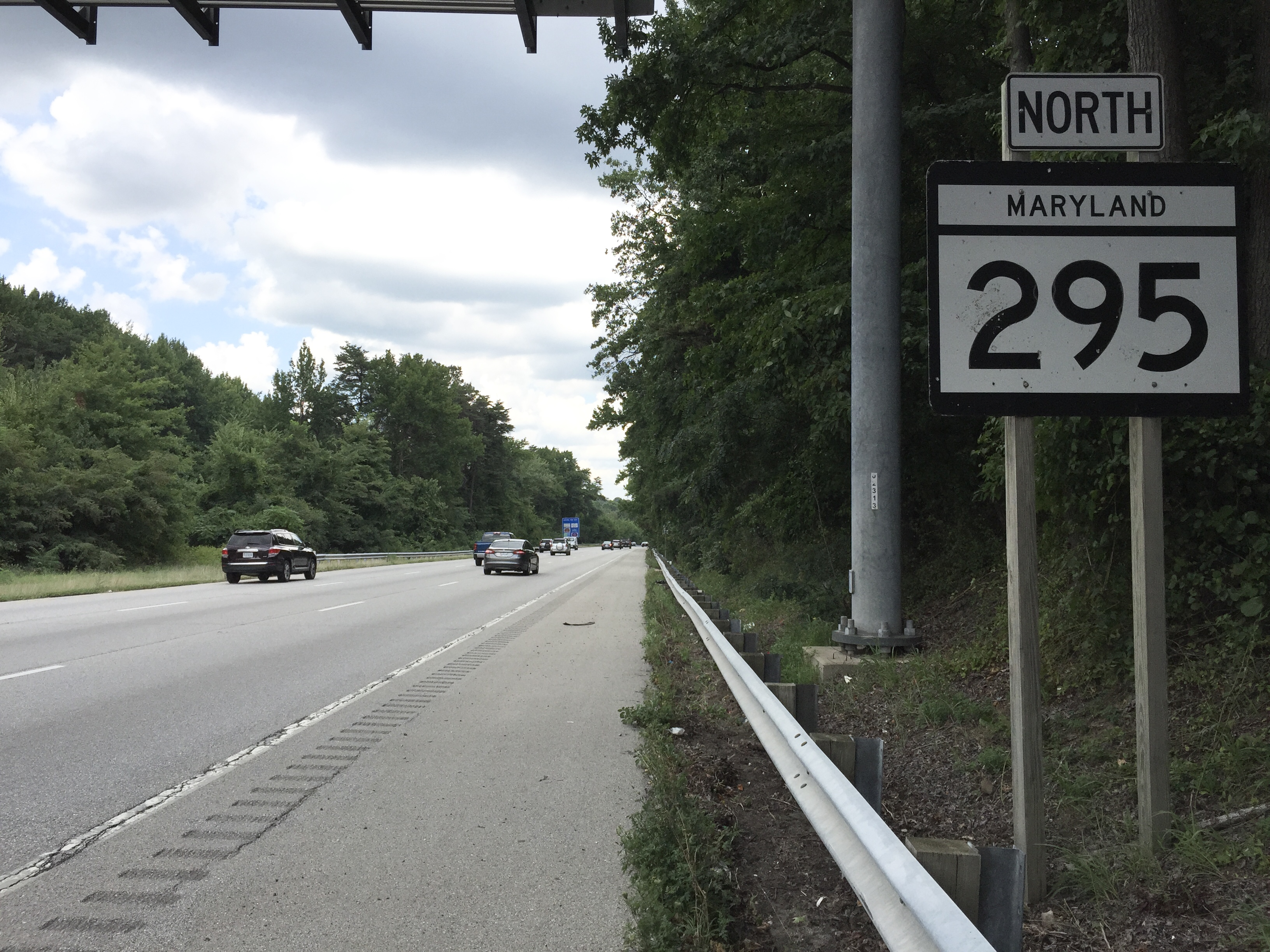 View north along Maryland State Route 295 (Baltimore-Washington Parkway) just north of Maryland State Route 175 (Jessup Road) in Severn, Anne Arundel County, Maryland